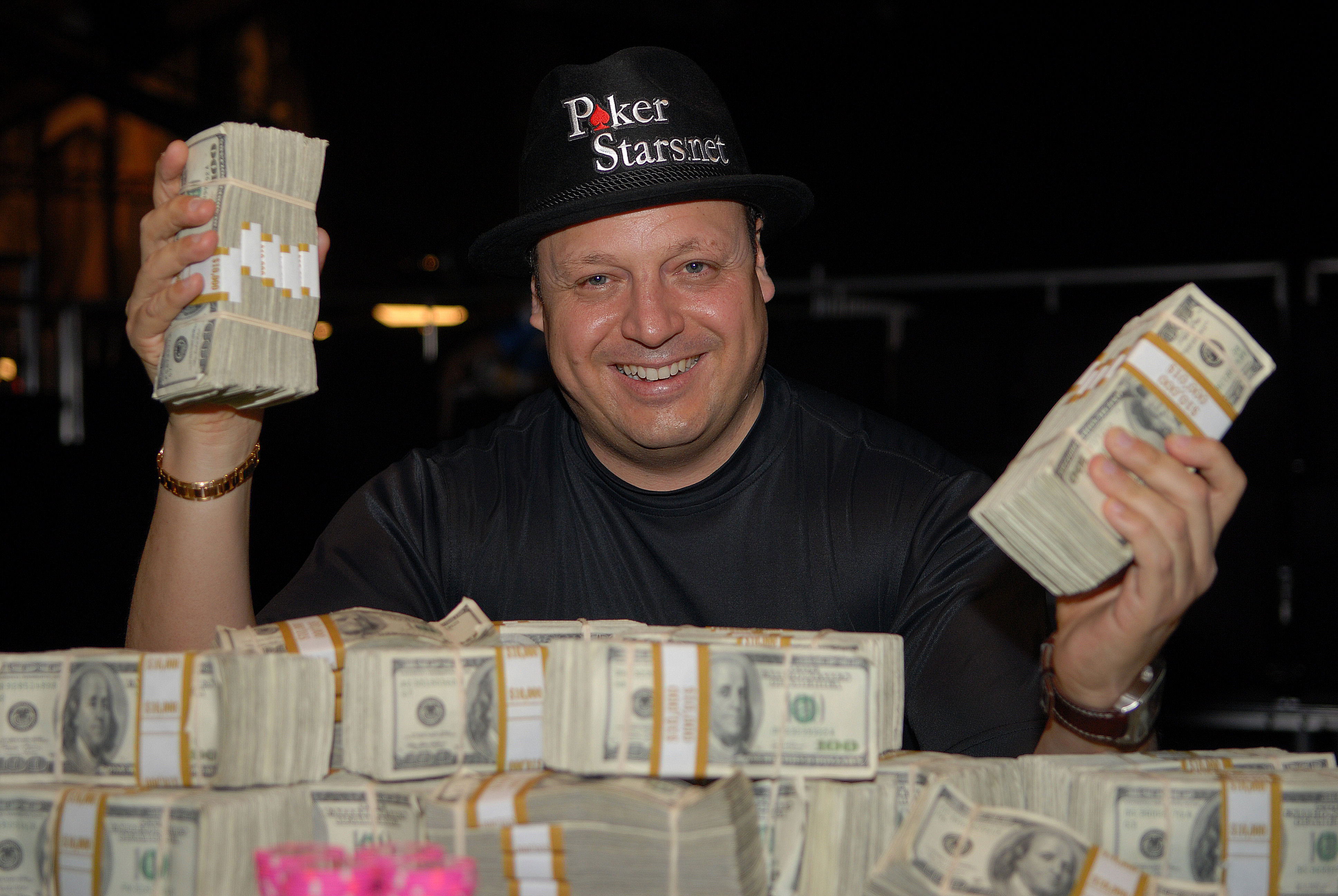 Jeff Lisandro after winning his bracelet at the en:2007 World Series of Poker